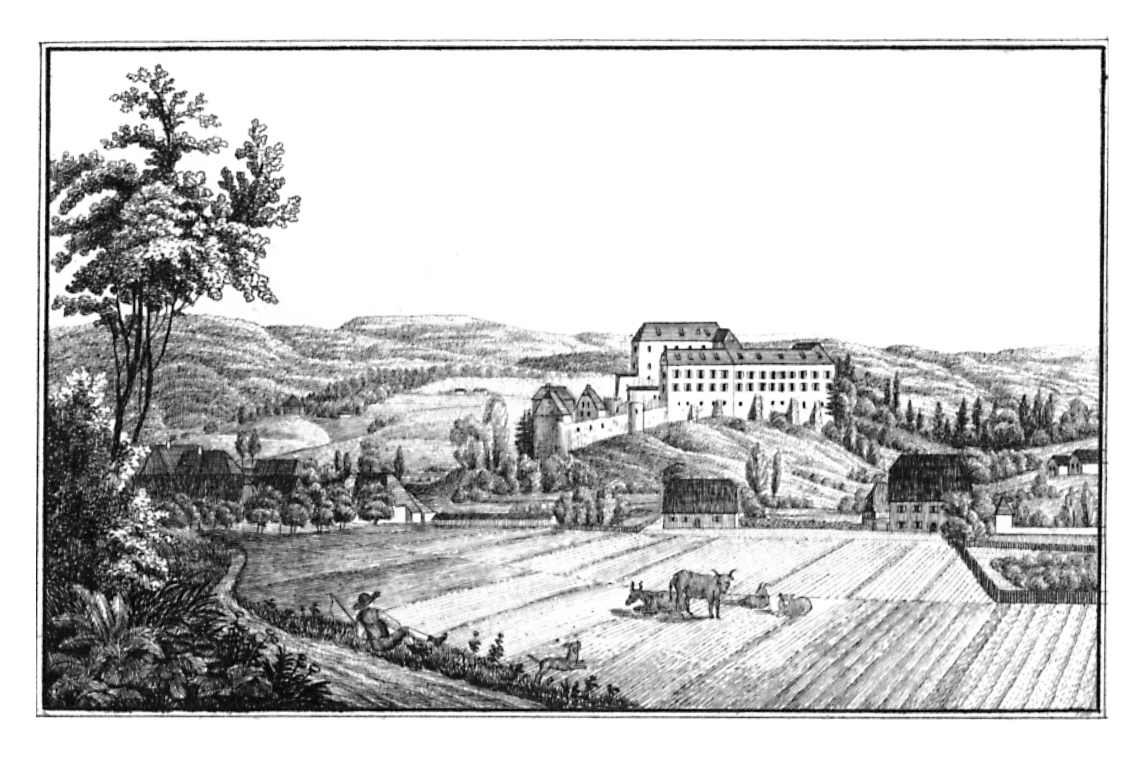 J. F. Kaiser - lithographirte Ansichten der Steyermärkischen Städte, Märkte und Schlösser, Graz 1824-1833 Joseph Franz Kaiser (1786–1859) Alternative names J. F. KaiserDescriptionAustrian printer and editorDate of birth/death 11 March 1786 19 September 1859Location of birth/death Graz (Styria) GrazAuthority control : Q1499963 VIAF: 30629353 ISNI: 0000 0000 3083 0153 LCCN: n87141671 GND: 129880159 NLP: A24960305 WorldCat creator QS:P170,Q1499963 . Scanprojekt Community Projektbudget 2012 This scan or this PDF-file was created within the GLAM-project Bookscanning, supported by Wikimedia Germany and Wikimedia Austria as a part of the community-project to capture books, documents and pictures which are not eligible to copyright or for which the copyright has expired. This document describes or depicts an object which is located in Austria today. Send requests for uncompressed scans to Hubertl. This work is in the public domain in its country of origin and other countries and areas where the copyright term is the author's life plus 100 years or less. You must also include a United States public domain tag to indicate why this work is in the public domain in the United States. This file has been identified as being free of known restrictions under copyright law, including all related and neighboring rights.